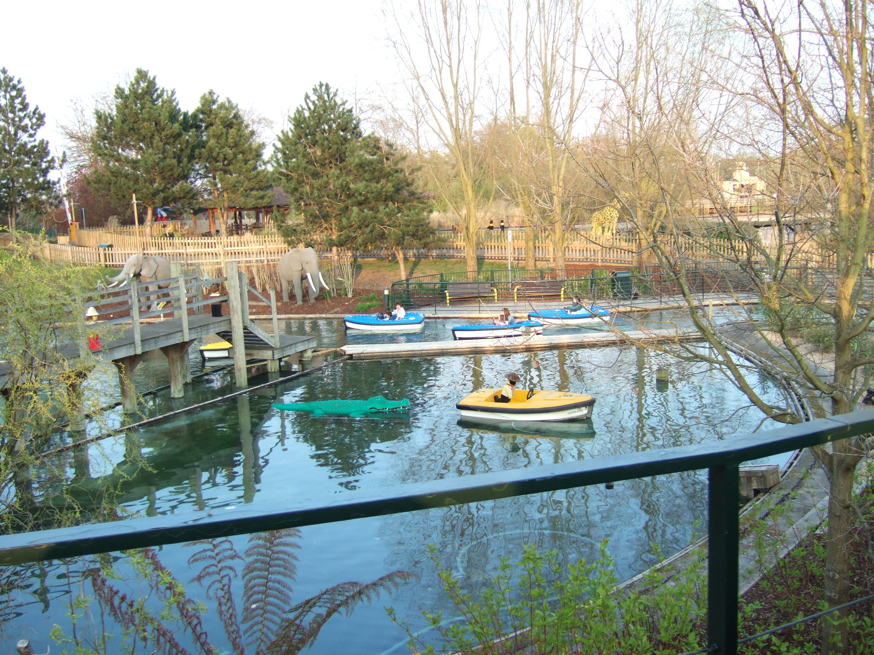 Boating School, Legoland Windsor, Berkshire, UK